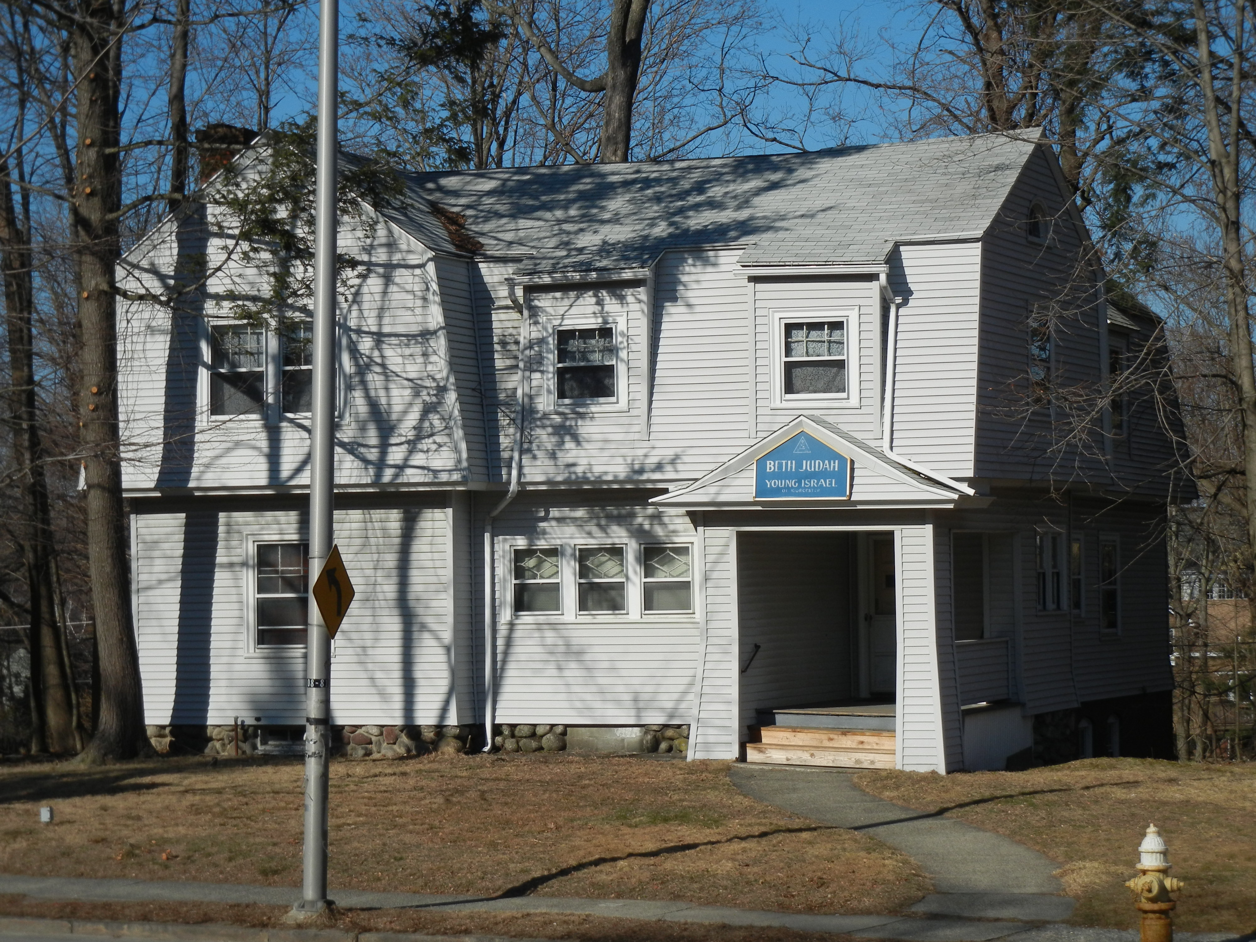 Congregation Beth Judah at 889 Pleasant Street in Worcester, Massachusetts, USA